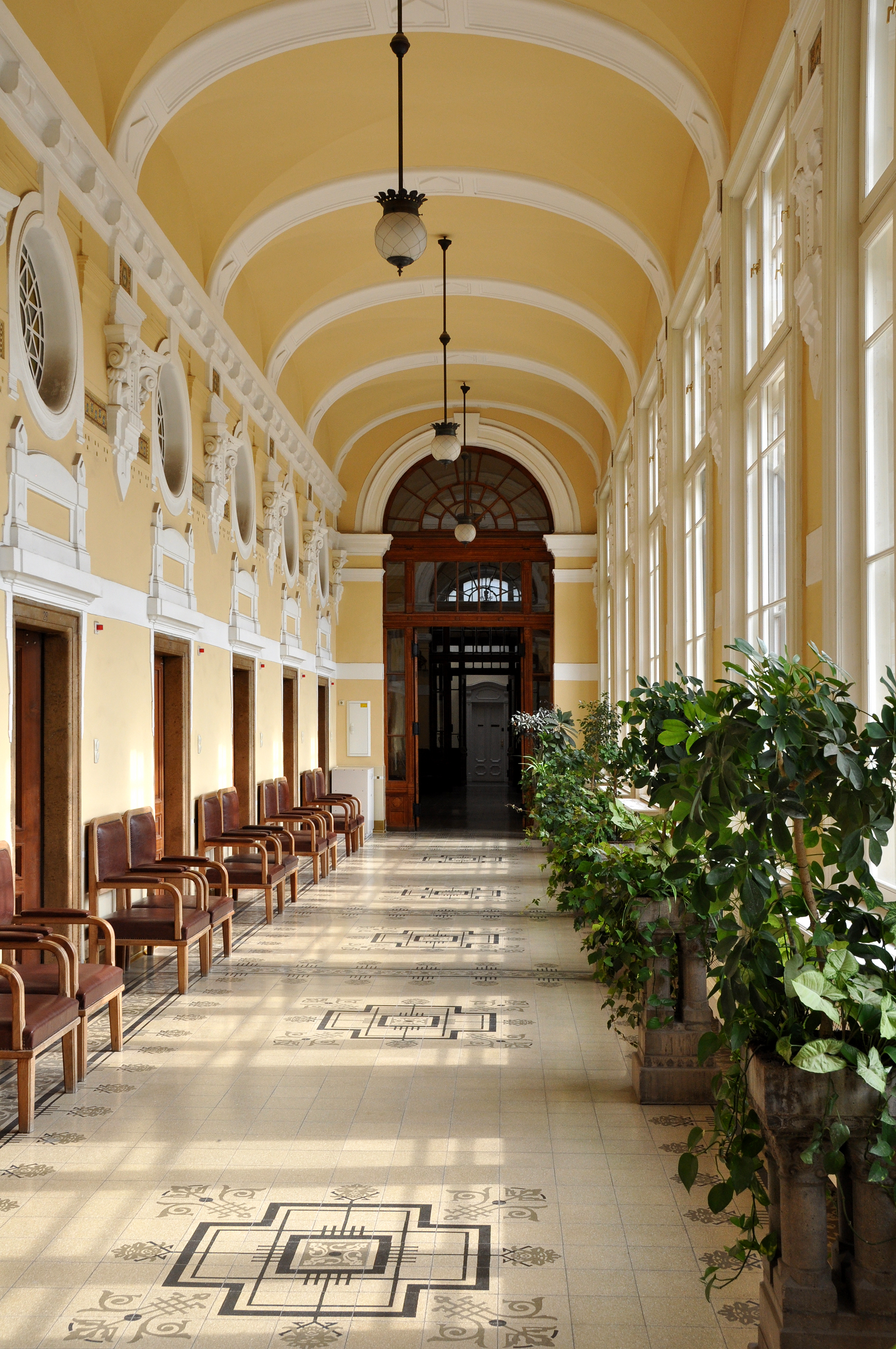 Budapest (Hungary): Széchenyi thermal baths, inside the main building